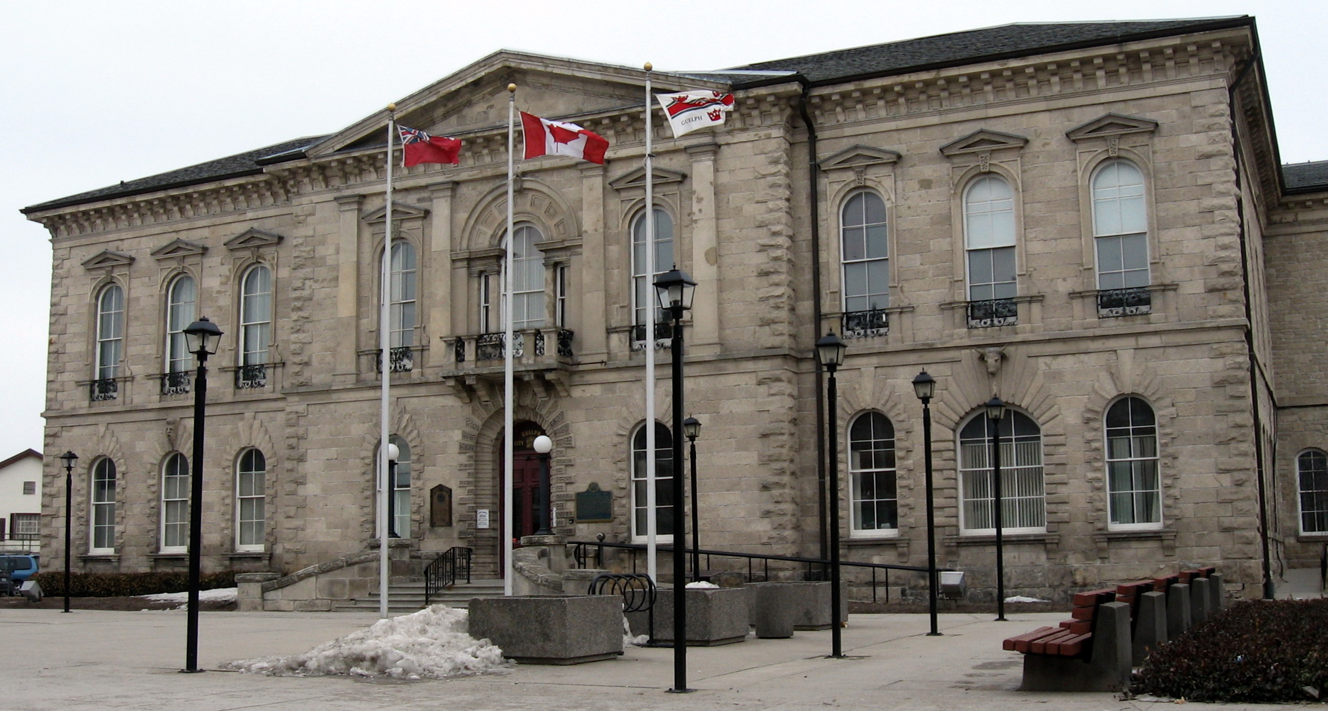 A picture of Guelph City Hall, Guelph, Ontario, Canada. A picture I took myself while on vacation.